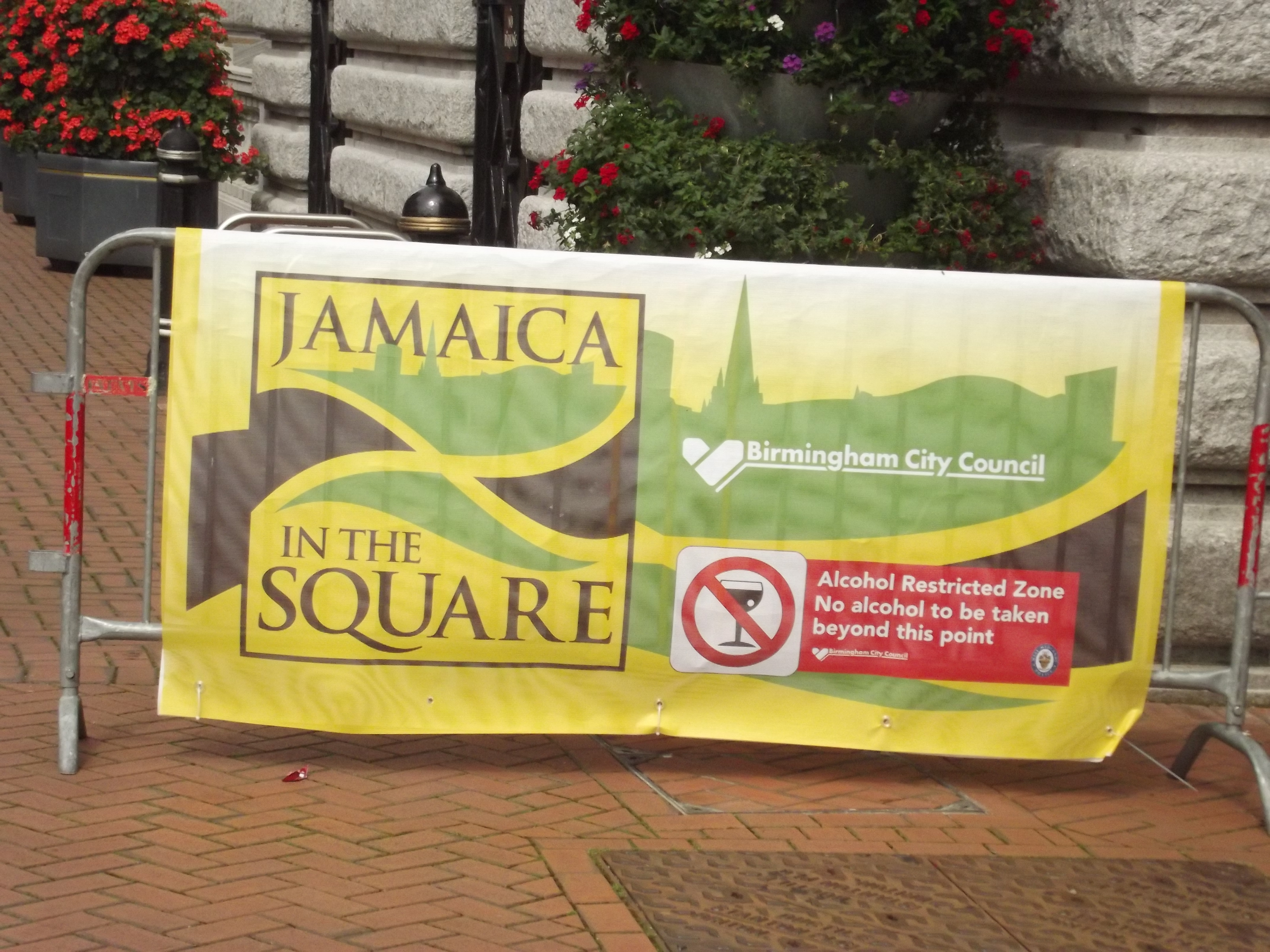 August 2012 is the 50th anniversary of Jamaica gaining it's Independence from the UK. And to celebrate, Birmingham are holding Jamaica in the Square, in Victoria Square and Chamberlain Square. In Chamberlain Square there was a stage, with a Jamaican woman talking about something. Banners near Congreve Passage and Edmund Street. No alcohol beyond this point. To be fair I was here for the Floral Trail and not for this event. I missed one of the wicker sculptures near the Town Hall (didn't expect to find all of them). And after this was heading to Centenary Square.